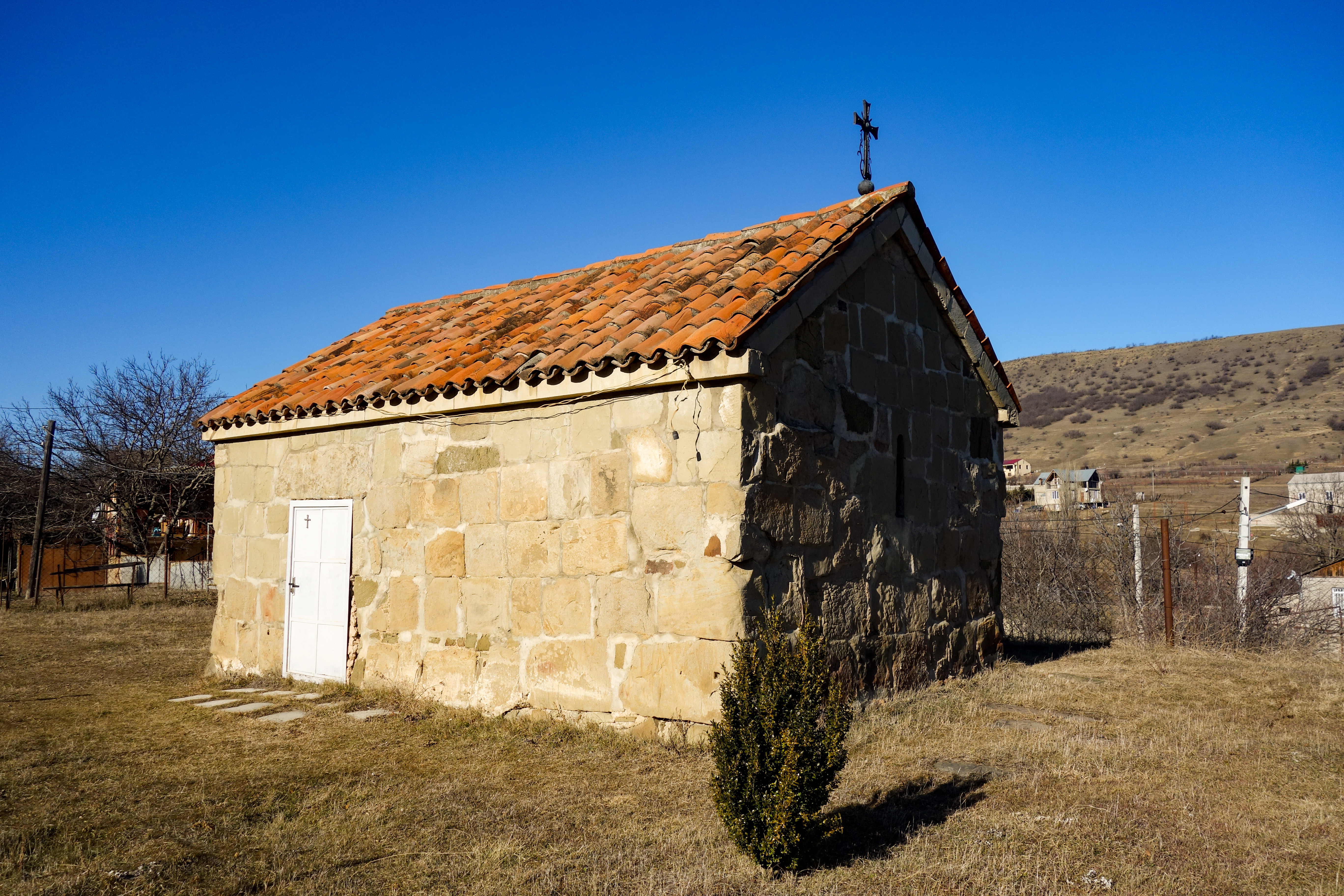 St. George Church, Lisi, Mtskheta District, Georgia